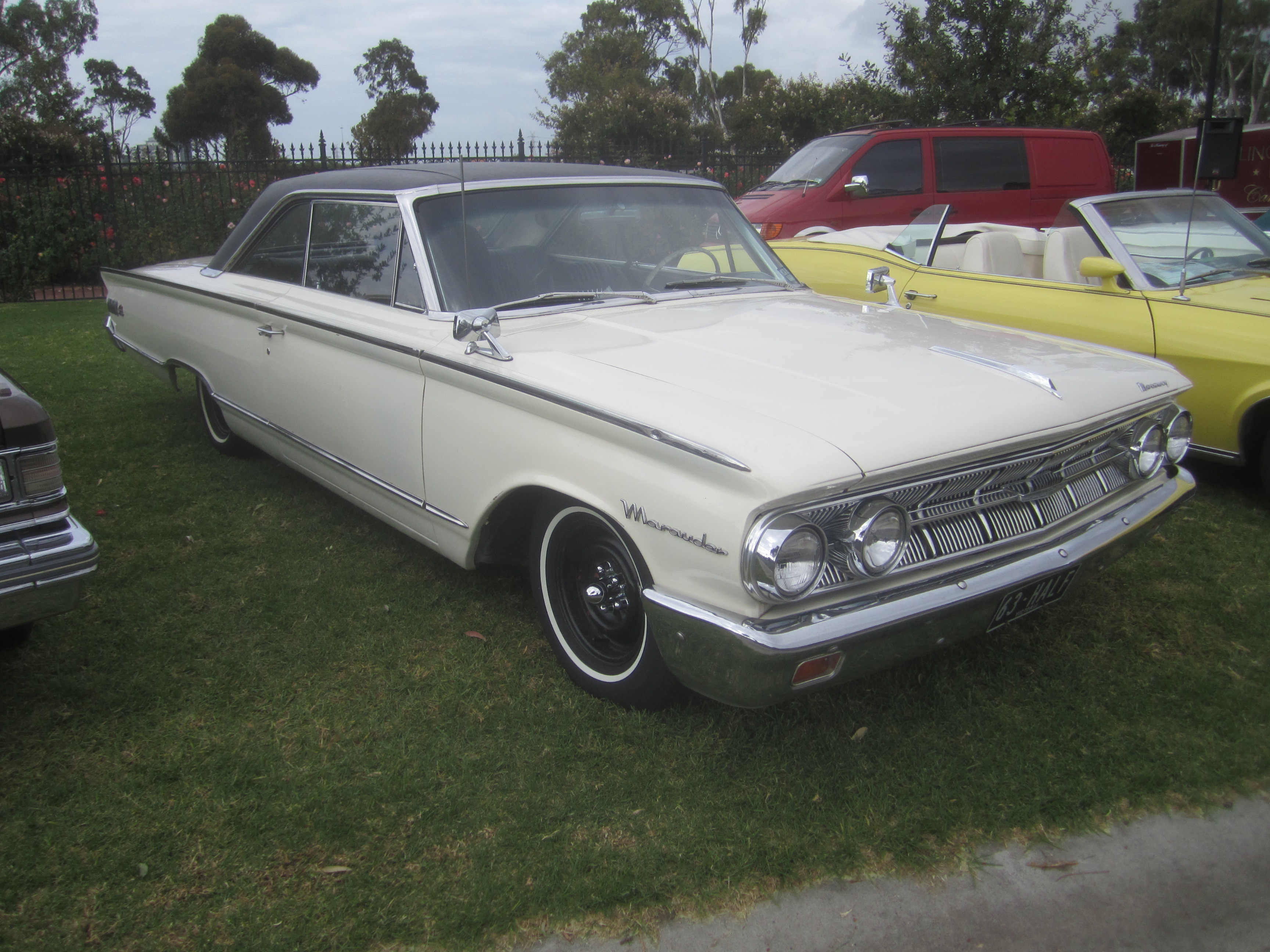 The Marauder (1st introduced this year, 1963) had the fastback roofline (the other models of the time had the Breezeway roof) and was closely related to the Ford Galaxie 500/XL with bucket seats and console. (both used in NASCAR racing). It was available in 2 or 4 door. After 1965, the Marauder name was discontinued. Engines; 390, 406 and 427 Thunderbird V8 Y blocks.